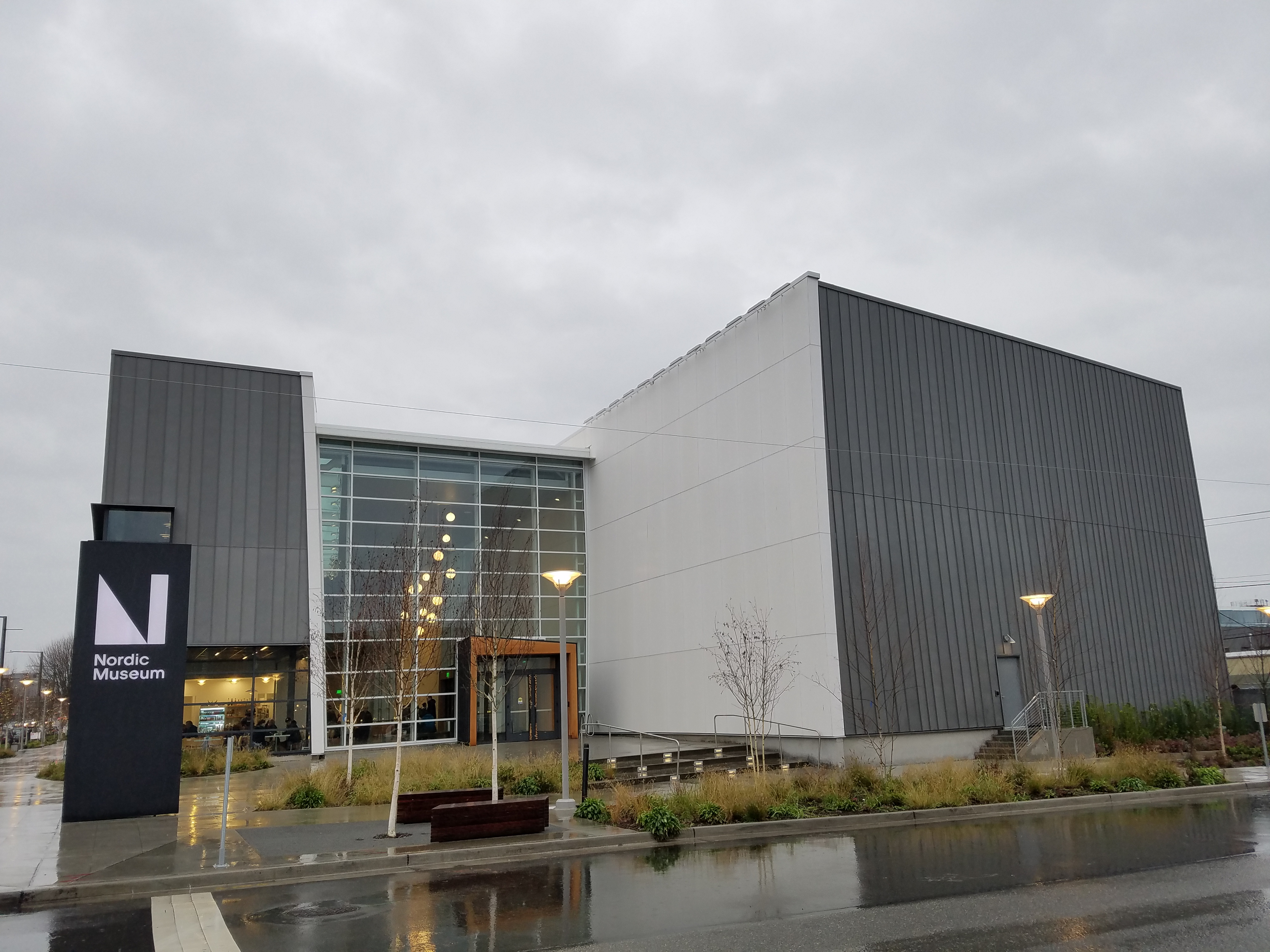 Main entrance to the Nordic Museum in Seattle's Ballard neighborhood on 28th St. on a rainy December day.